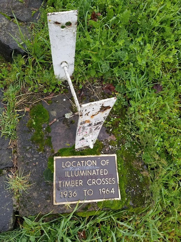 A sign shows the location where crosses used to be lit on Skinner Butte, Eugene, OR between 1936 and 1964